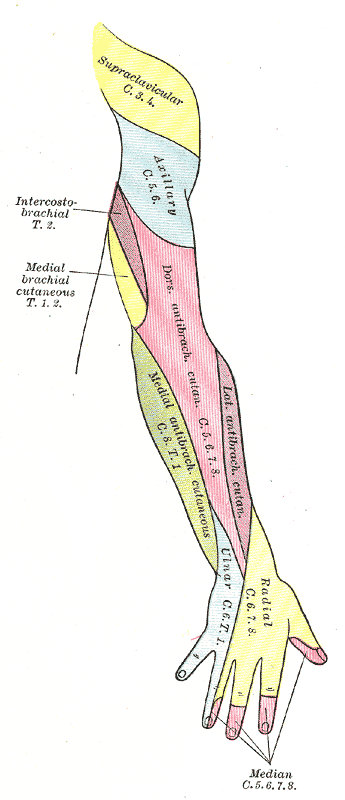 Diagram of segmental distribution of the cutaneous nerves of the right upper extremity. Posterior view. ("Lat. antibrach. cutan." visible in purple at center.)